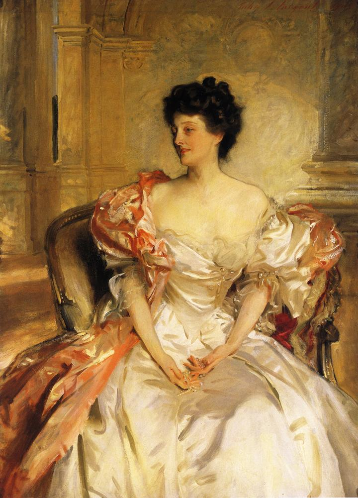 Cora Smith (1863-01-14 New Haven, Oswego - 1931-05-31 New Haven, Oswego), Countess of Strafford. Wrotham Park, The Earl of Strafford